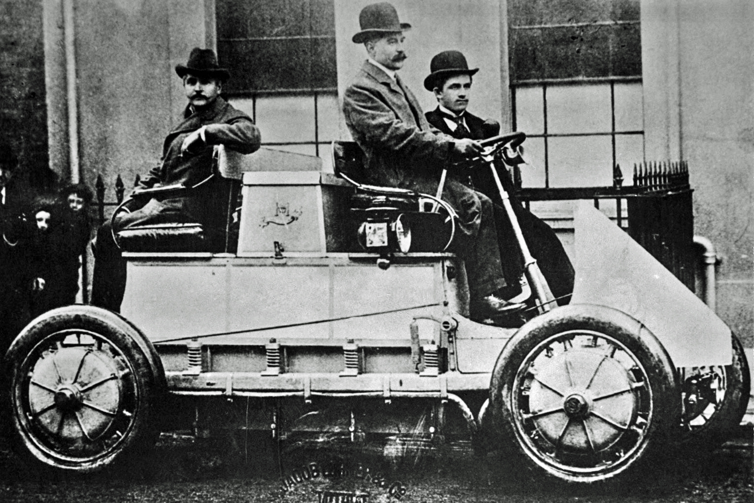 picture of company "Jacob Lohner & Co"